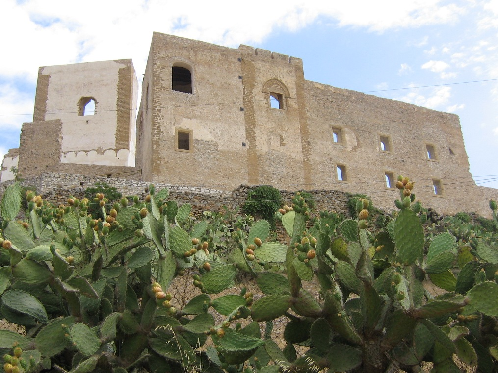 CASTLE OF EMIR